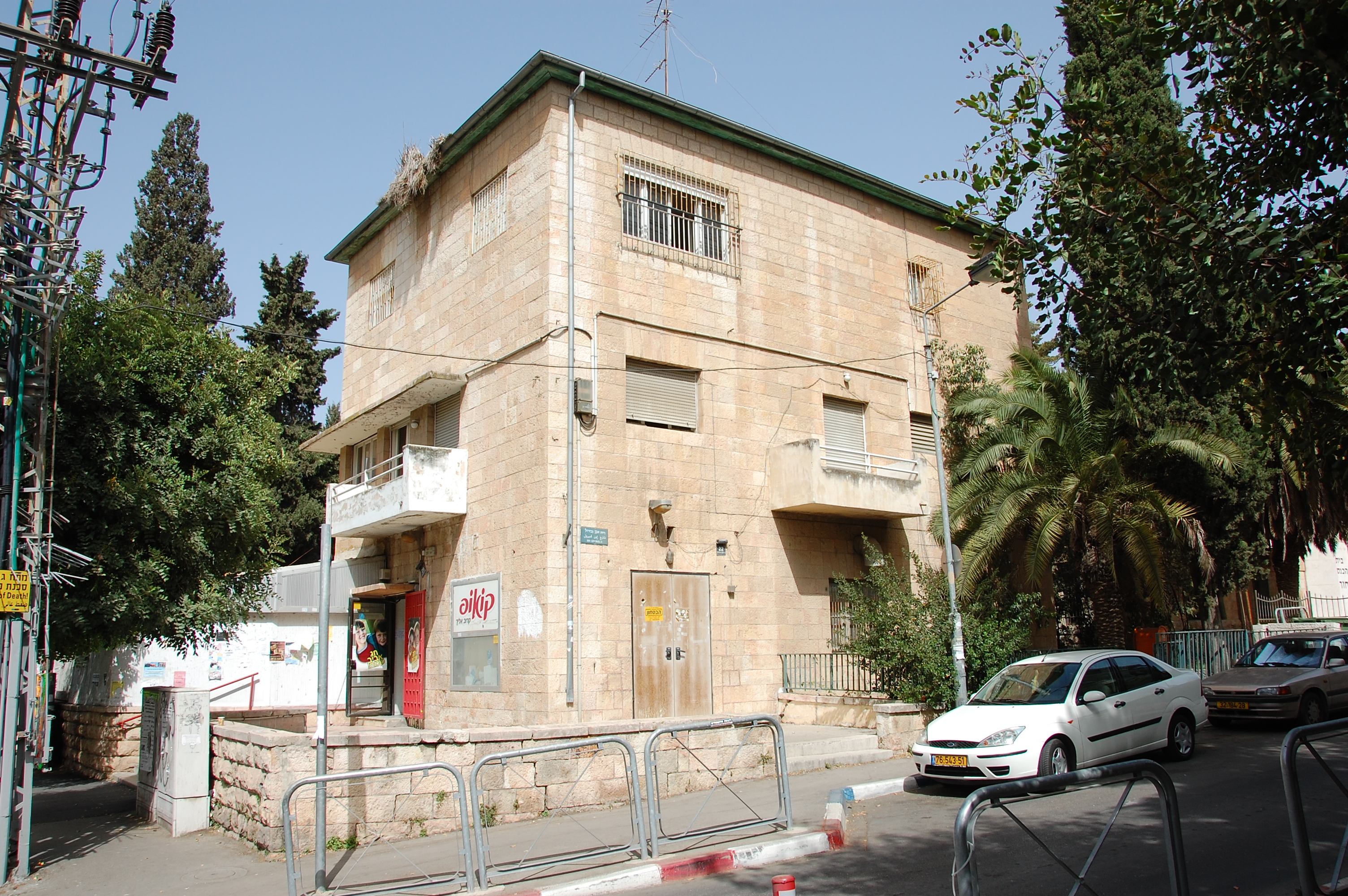 Jerusalem, 22 Ibn Gabirol (Gevirol) street. בית מולכו בית מולכו ברחביה